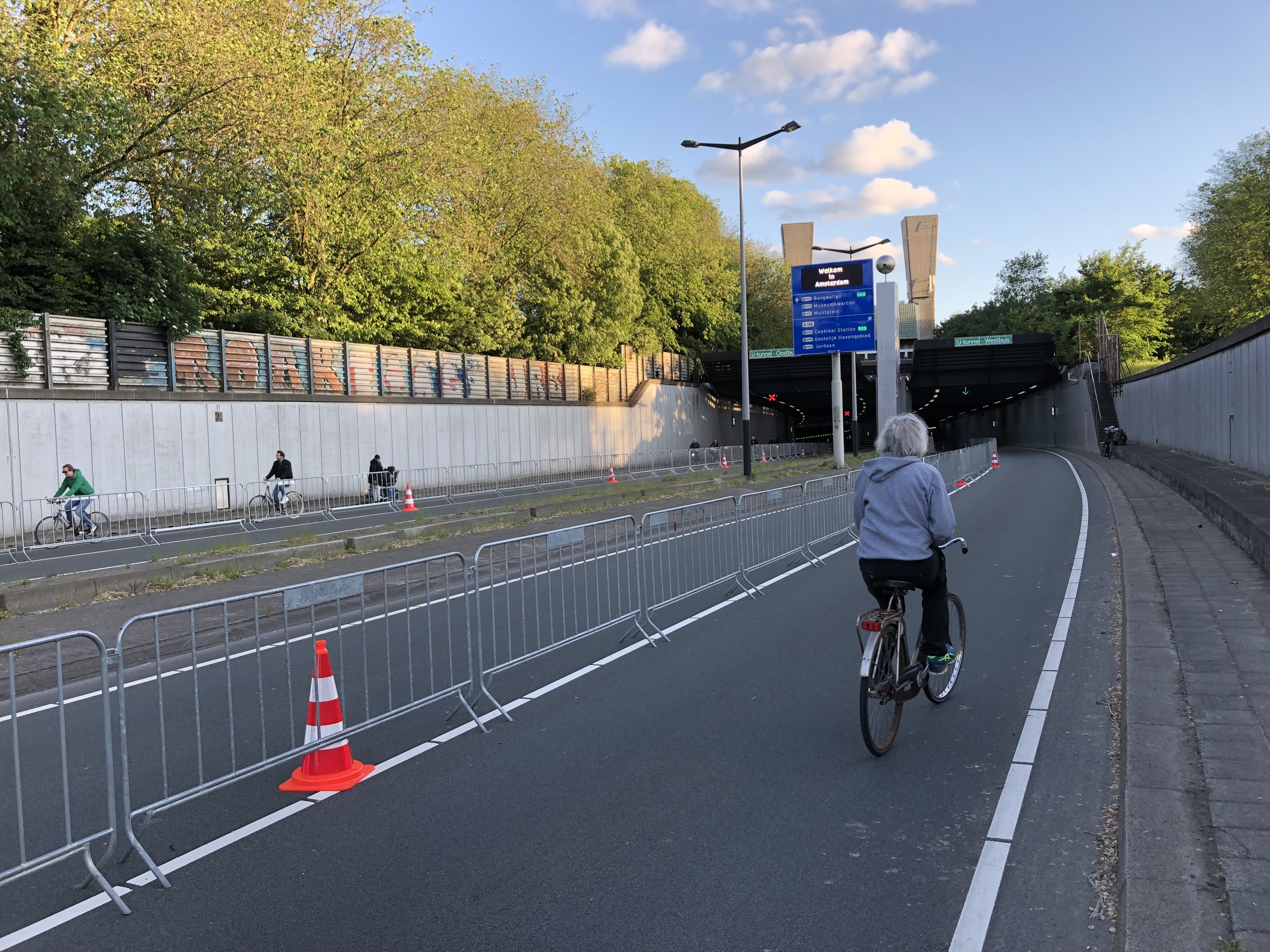 The IJtunnel in Amsterdam opened for bicyclists on Tuesday May 28th 2019 because of public transport strikes. Because there is no other easy way for cyclists to reach the North part of the city, the tunnel (normally for motorised transport only) opened for cyclists for the duration of the strike.